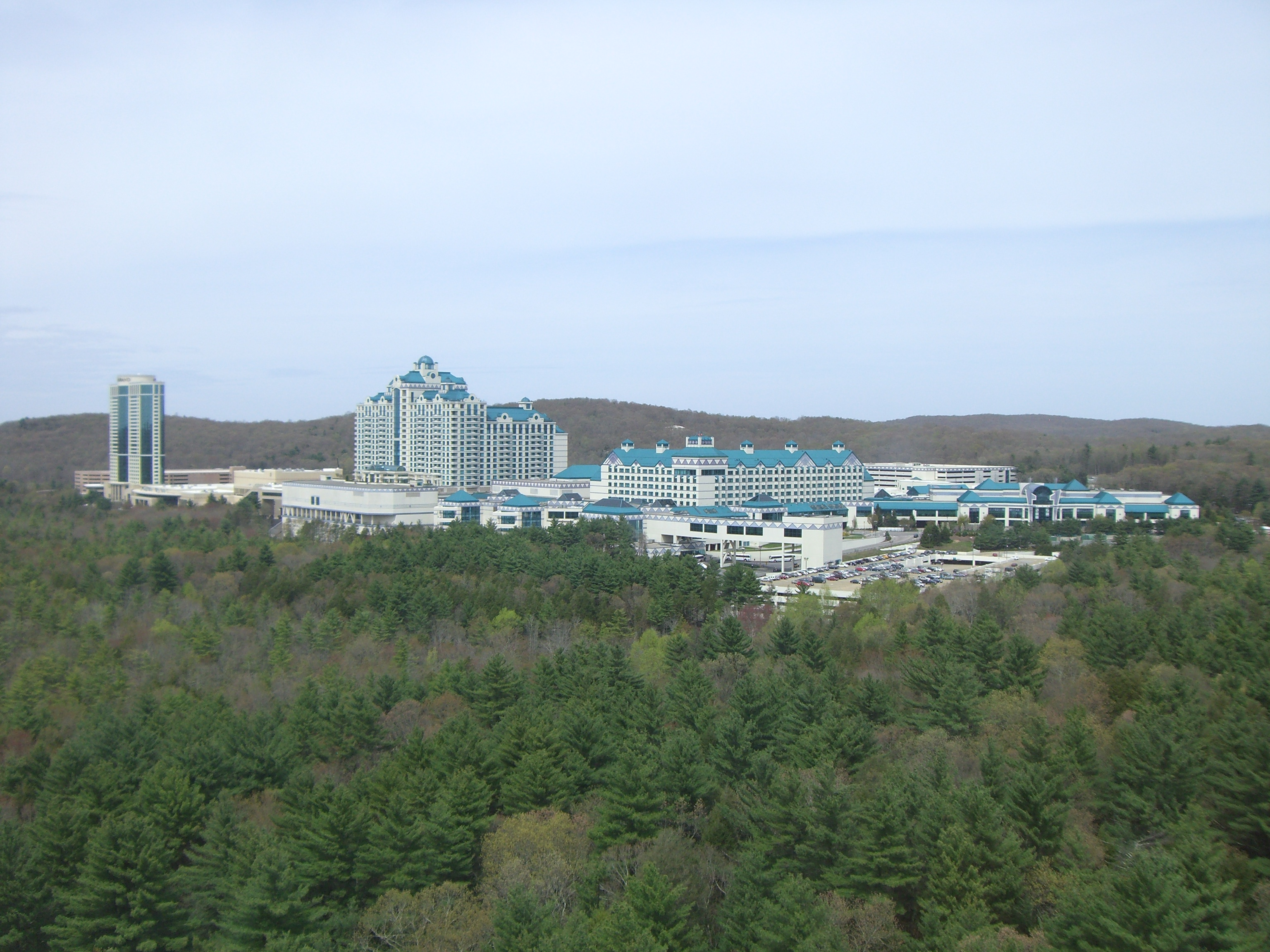 Foxwood Casino of the Mashantucket Pequot Tribe, Ledyard, CT